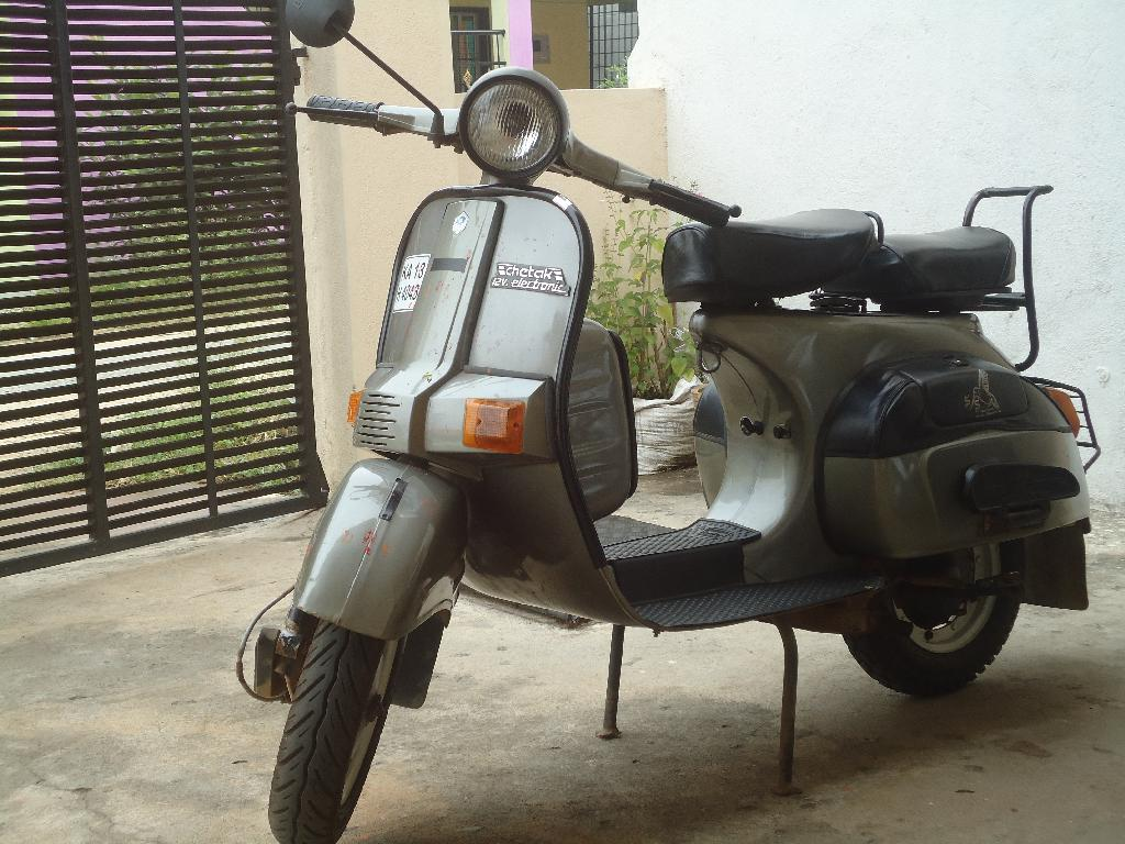 1996 model Bajaj Chetak 2 stroke after Restoration .